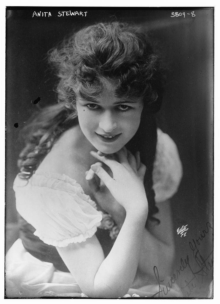 Anita Stewart in 1916